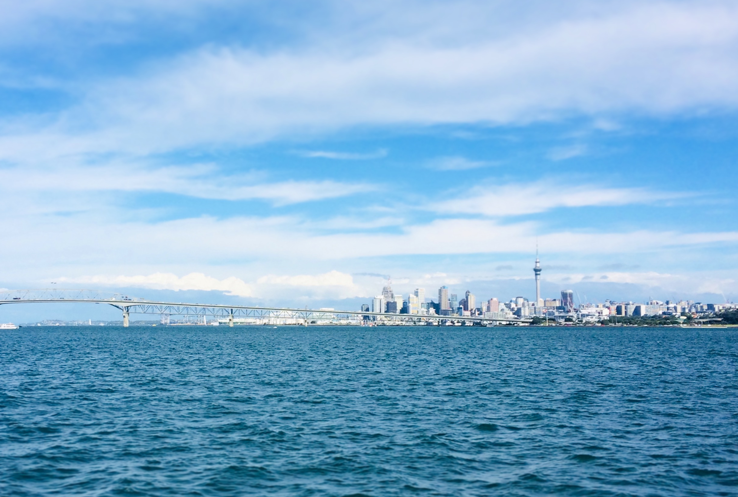 Auckland City skyline from the Waitematā Harbour, including the Harbour Bridge and Sky Tower.